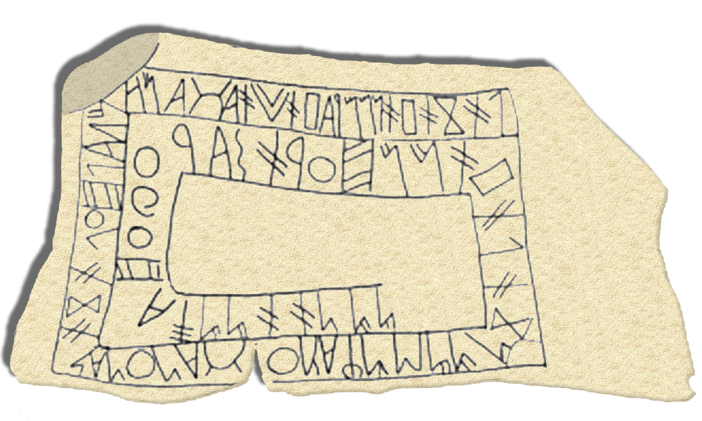 The Tartessian Fonte Velha inscription (Bensafrim, (Lagos)) beginning with "lokooboo niiraboo too aŕaia i kaaltee..." meaning "Invoking the divine Lug of the (Gallaecian) Neri (tribe), this funerary monument for a noble Celt..."[3][4]. Fonte Velha (Bensafrim, Lagos). Tartessian or Southwest script. Fonte Velha (Bensafrim, Lagos).